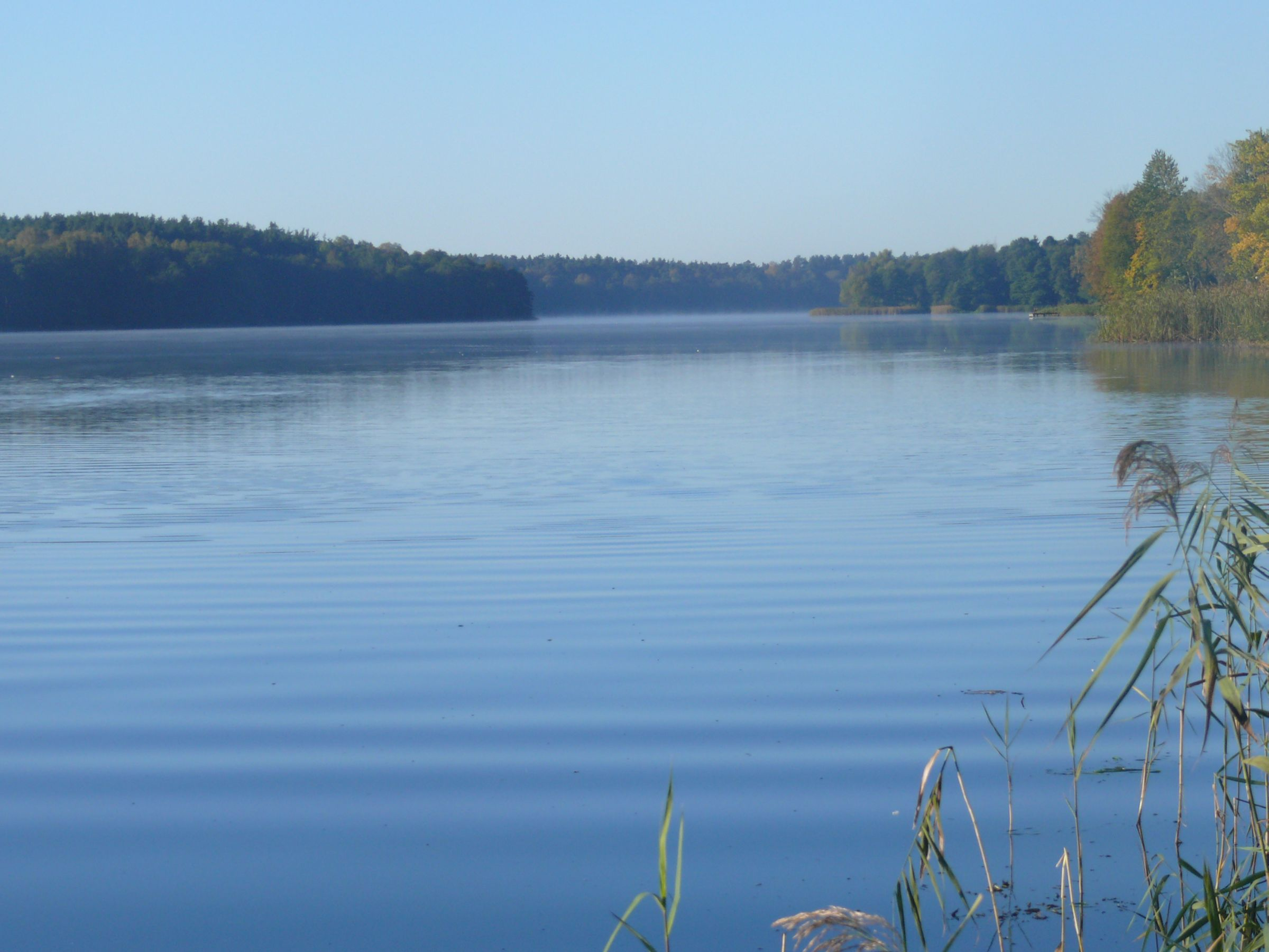 Poland, Dubie Lake